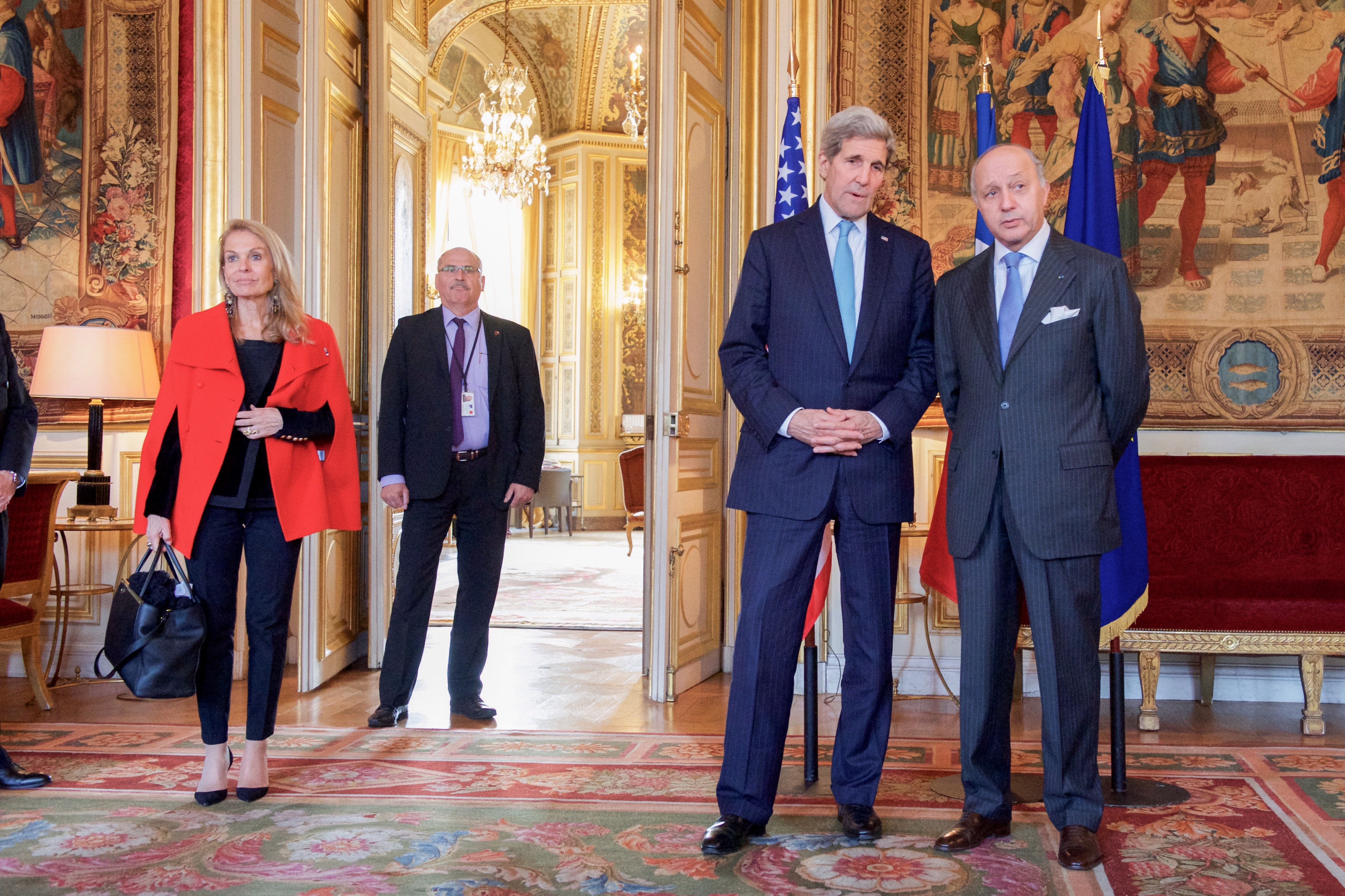 U.S. Secretary of State, John Kerry flanked by U.S. Ambassador to France, Jane Hartley chats with French Foreign Minister Fabius prior to their bilateral meeting on November 17, 2015. [State Department Photo/Public Domain]